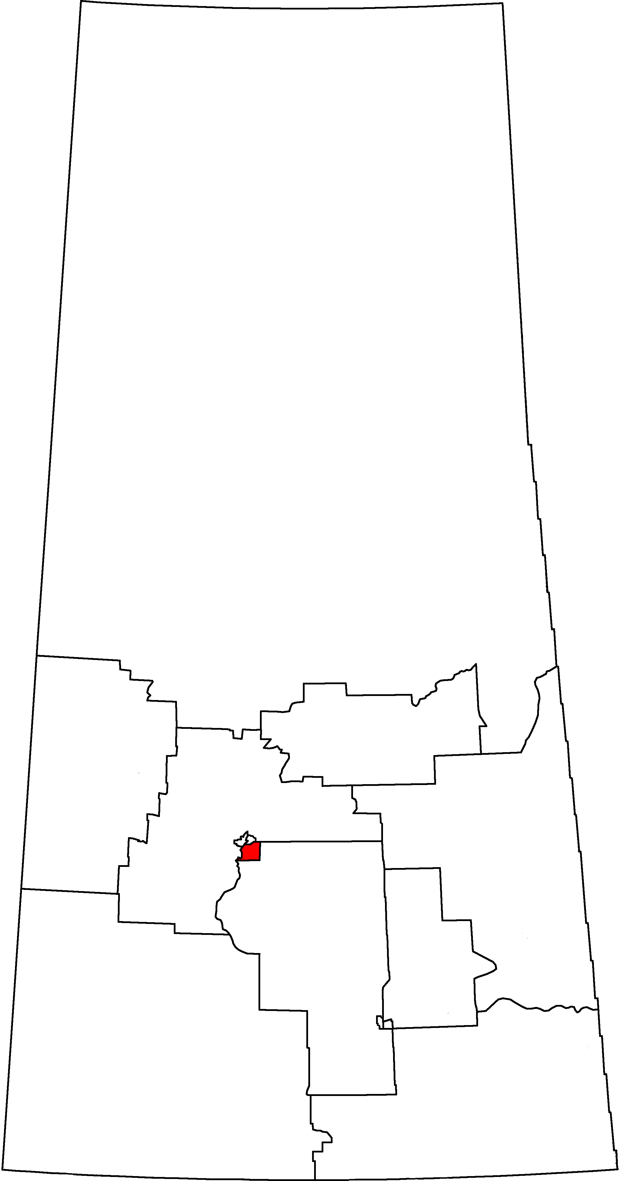 Federal Electoral District in Saskatchewan, Canada as of the 2013 Representation Order.